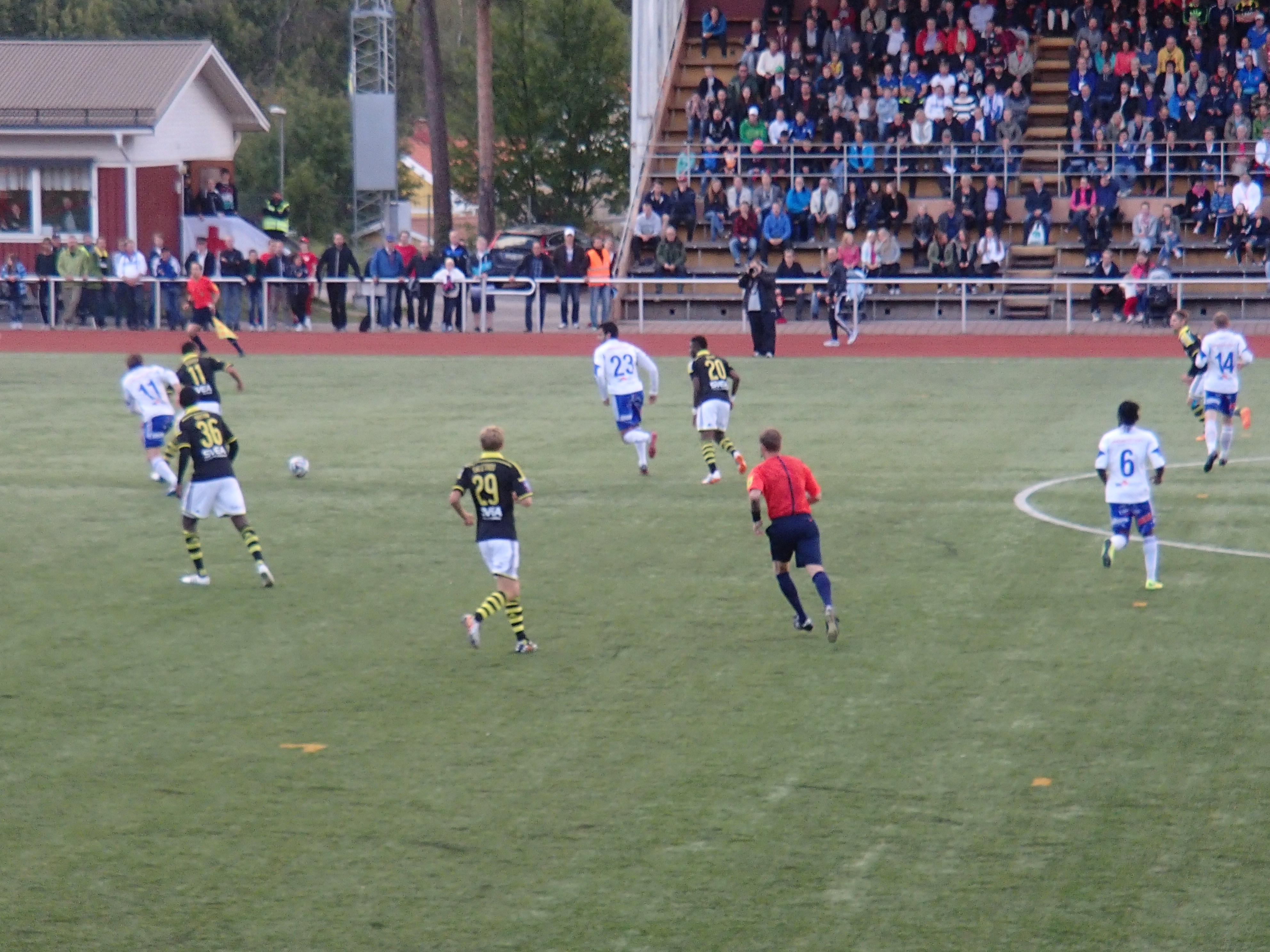 IFK Luleå mot AIK i Svenska Cupen